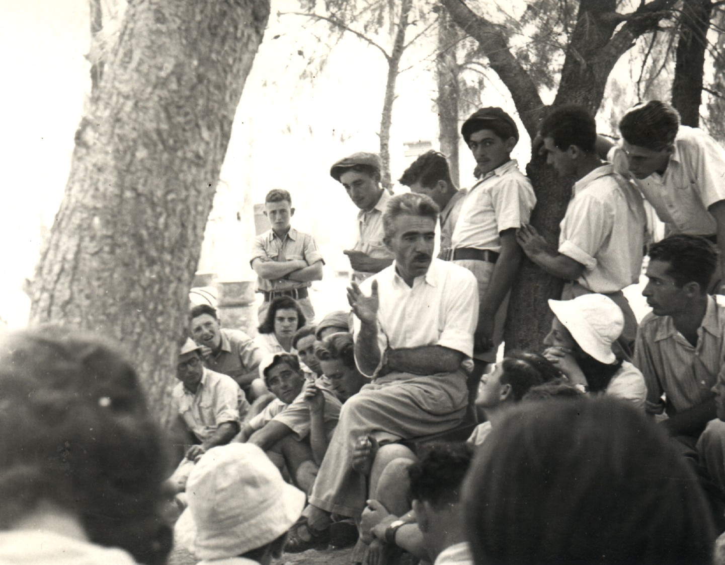 People of Israel